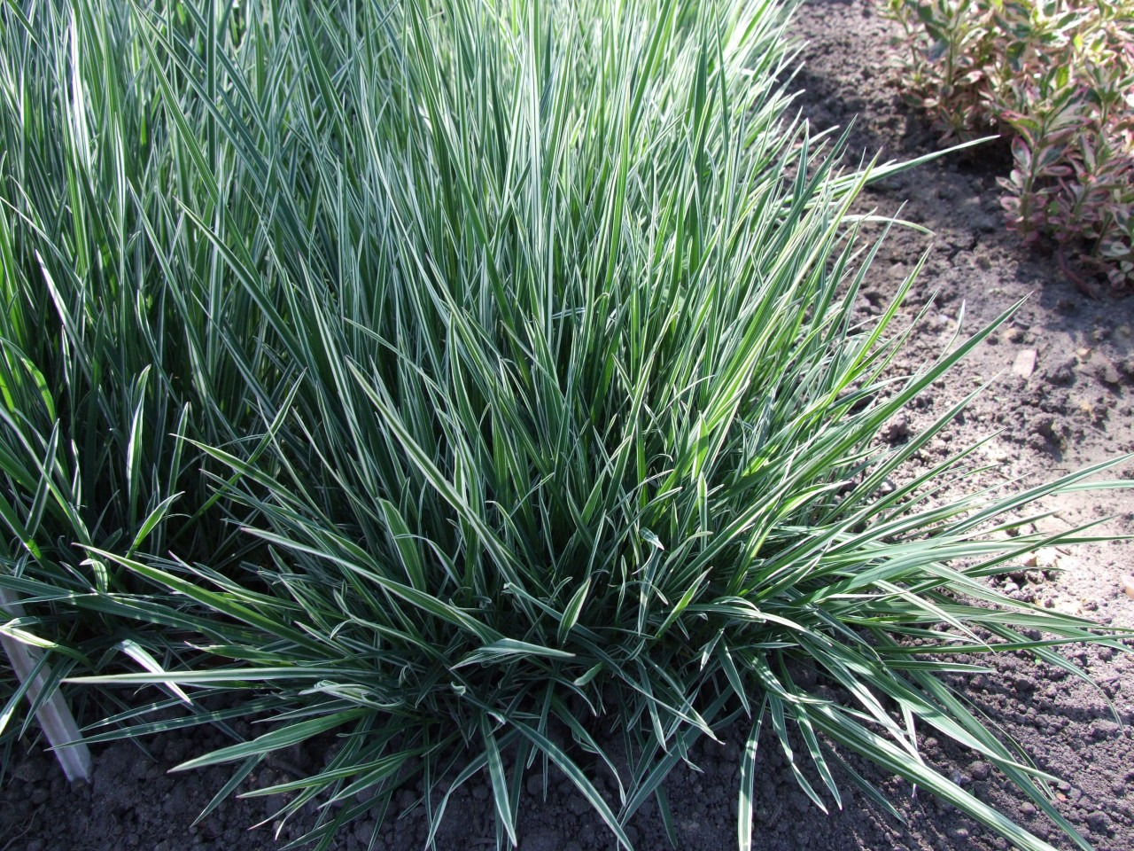 Arrhenatherum elatius subsp. bulbosum